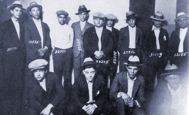 The Detroit Purple Gang. #33770 (standing far left) is Tony Eduardo Delduca leader of this crew, 1910-1985. The man kneeling in front of him is his brother Dominic Delduca 1908-1997